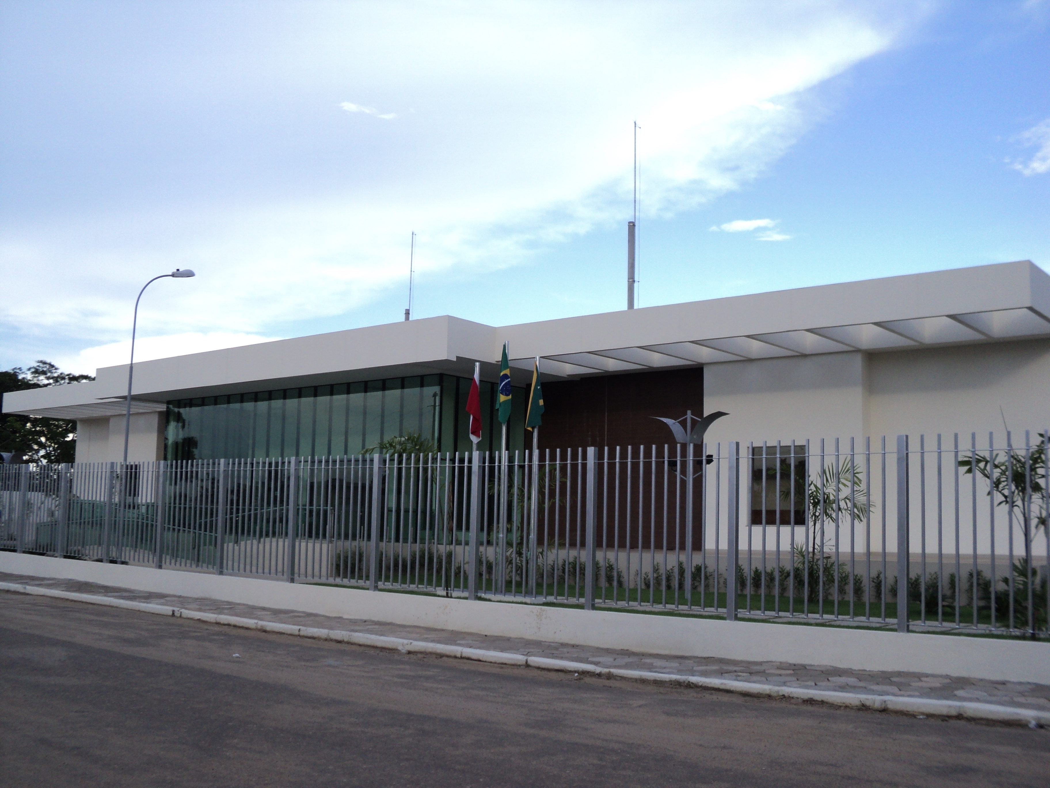 Subsection Judicial Forum of Maraba, responsible for the entire region of southeastern Pará